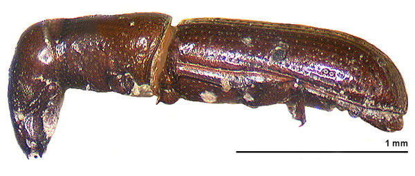 Lateral view of a specimen of Macrorhyncolus littoralis photographed by Landcare Research New Zealand Ltd.